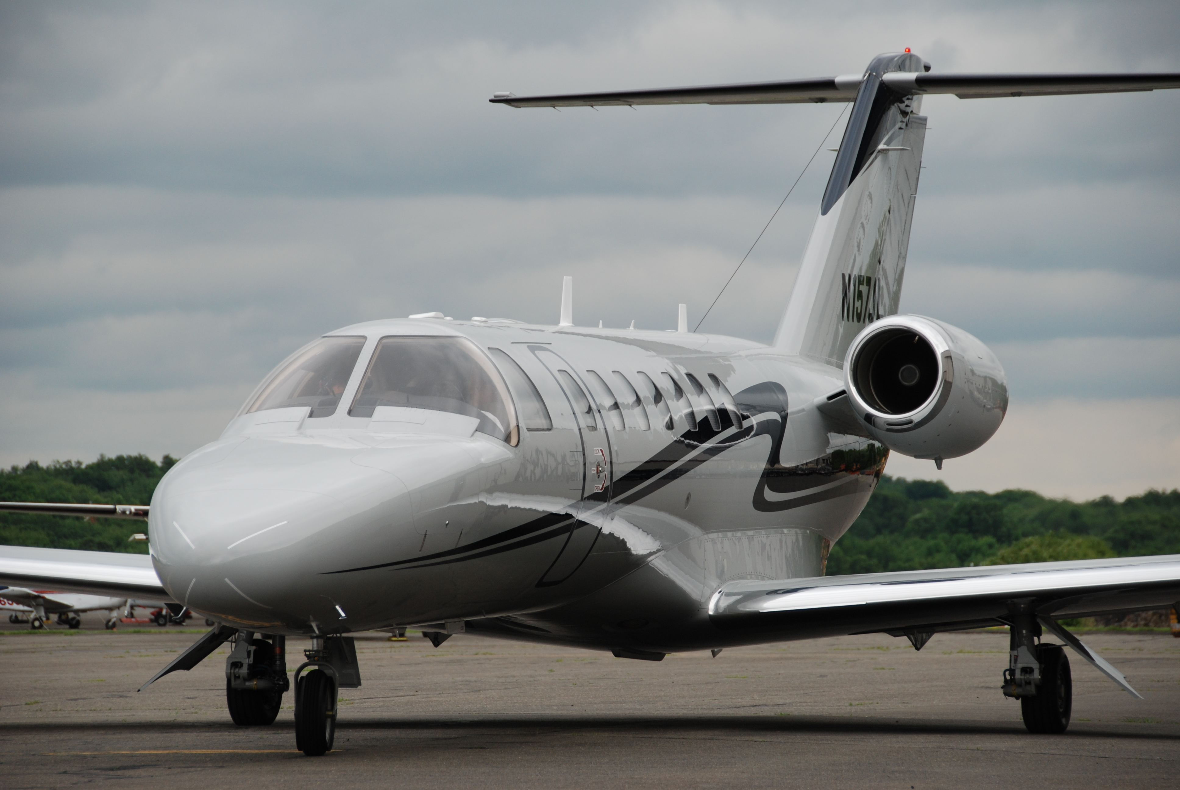 One of Tradewind Aviation's Cessna CJ3, N157JL